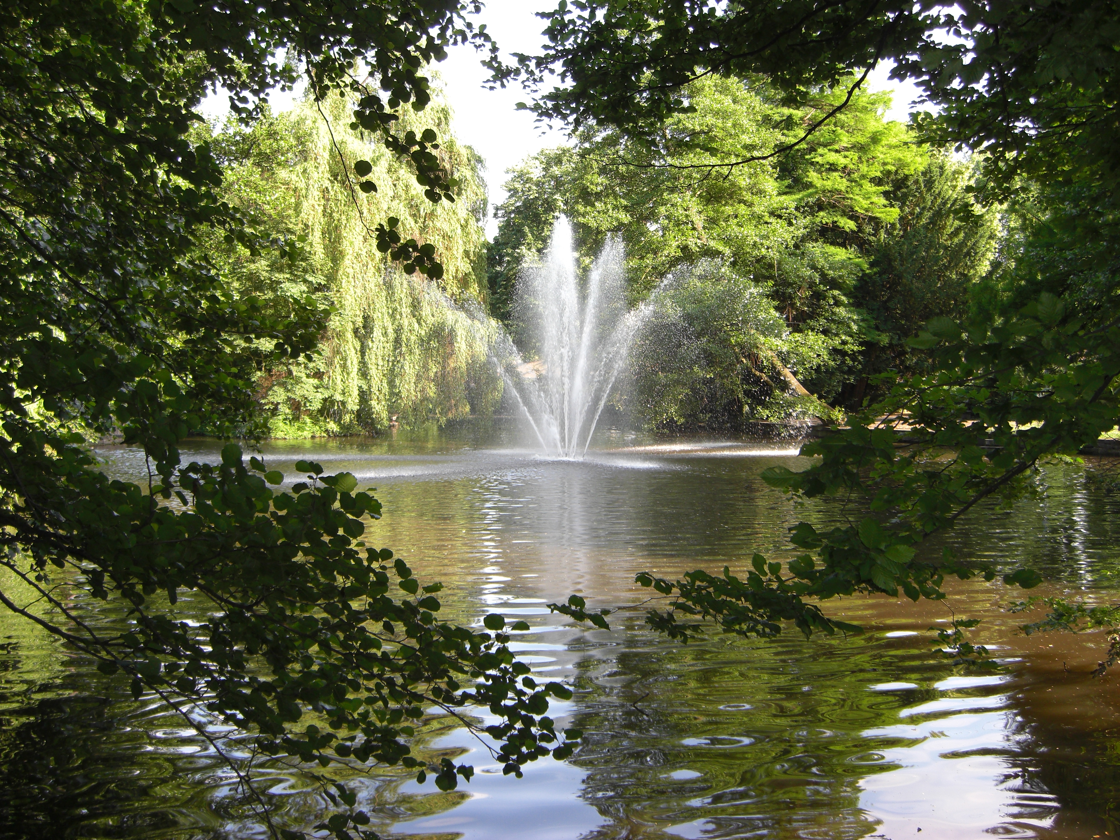 Dreieichpark in Offenbach